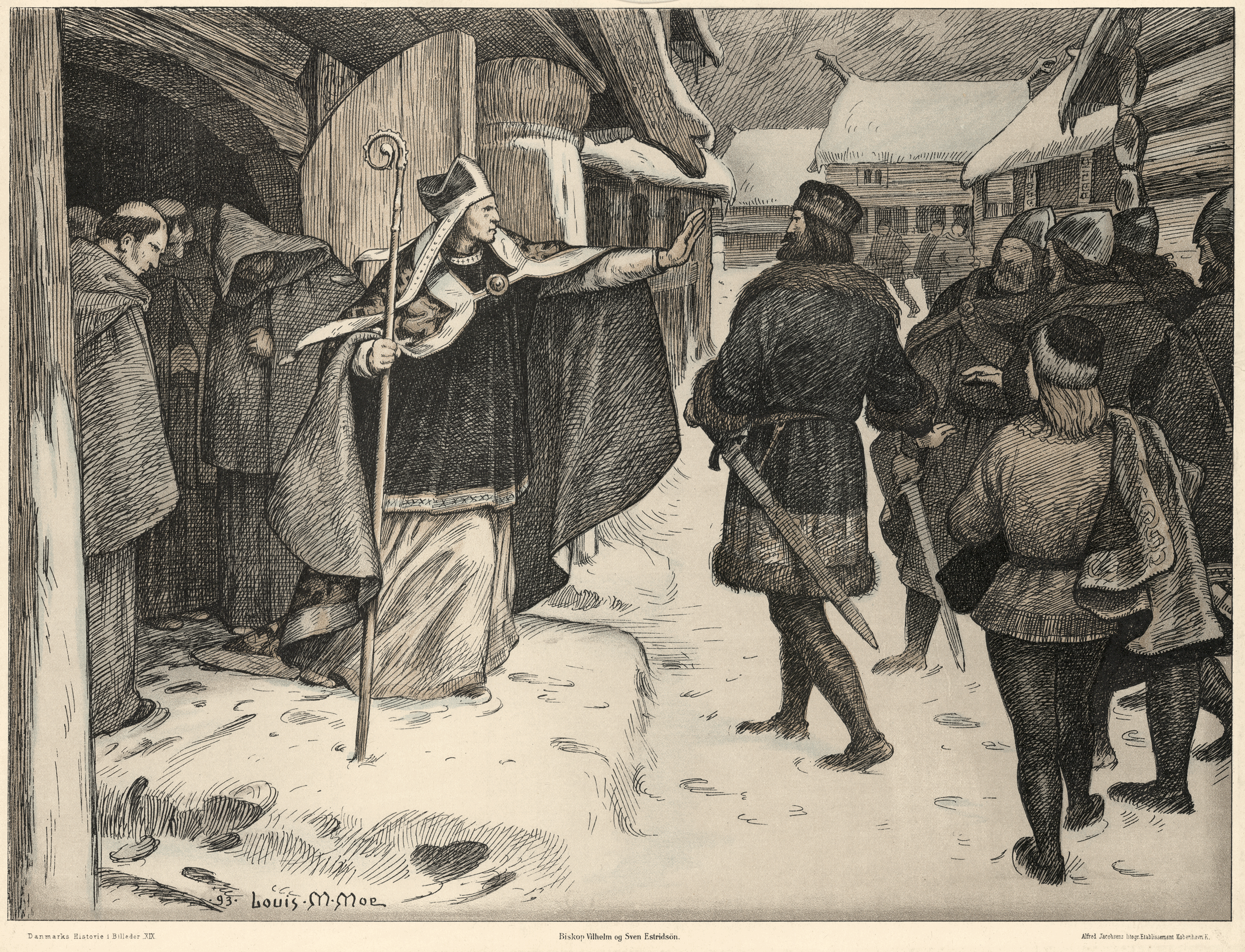 The story goes that the two friends fell out when Sweyn had some men killed on holy ground. He had to make amends to the bishop - except for the fact that most modern scolars dismiss the story as myth. Colour lithograph on paper, glued on cardboard. Signed lower left: 93. Louis M. Moe. Text: Danmarks Historie i Billeder XIX. Bisp Vilhelm og Sven Estridsøn. Alfred Jacobsens litogr. Etablissement, København K. Published in 1898, documented in V.E. Clausen: Folkelig grafik i Skandinavien, 1973, page 144.